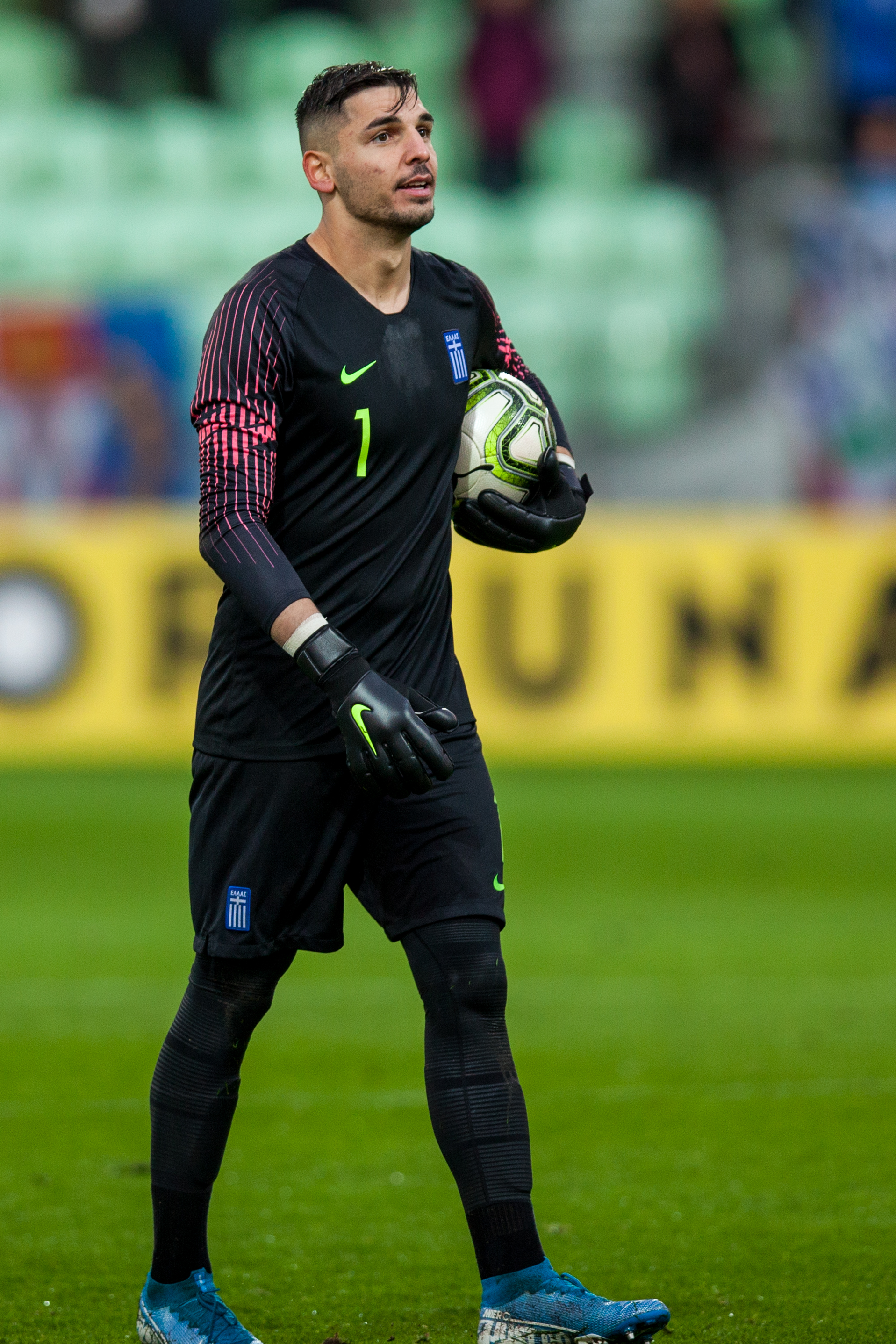 Marios Siampanis in an internatinoal association football match of European Under-21 Championship Qualifying Round between the Czech Republic and Greece, Městský stadion Karviná, Karviná District, Moravian-Silesian Region, Czechia Personality rights warningAlthough this work is freely licensed or in the public domain, the person(s) shown may have rights that legally restrict certain re-uses unless those depicted consent to such uses. In these cases, a model release or other evidence of consent could protect you from infringement claims.